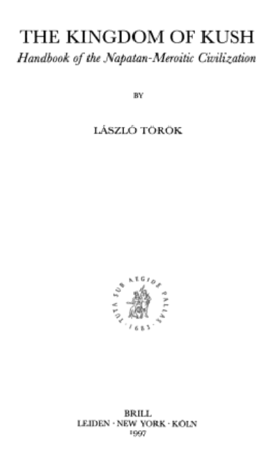 László Török, The Kingdom of Kush, 1997: Title page